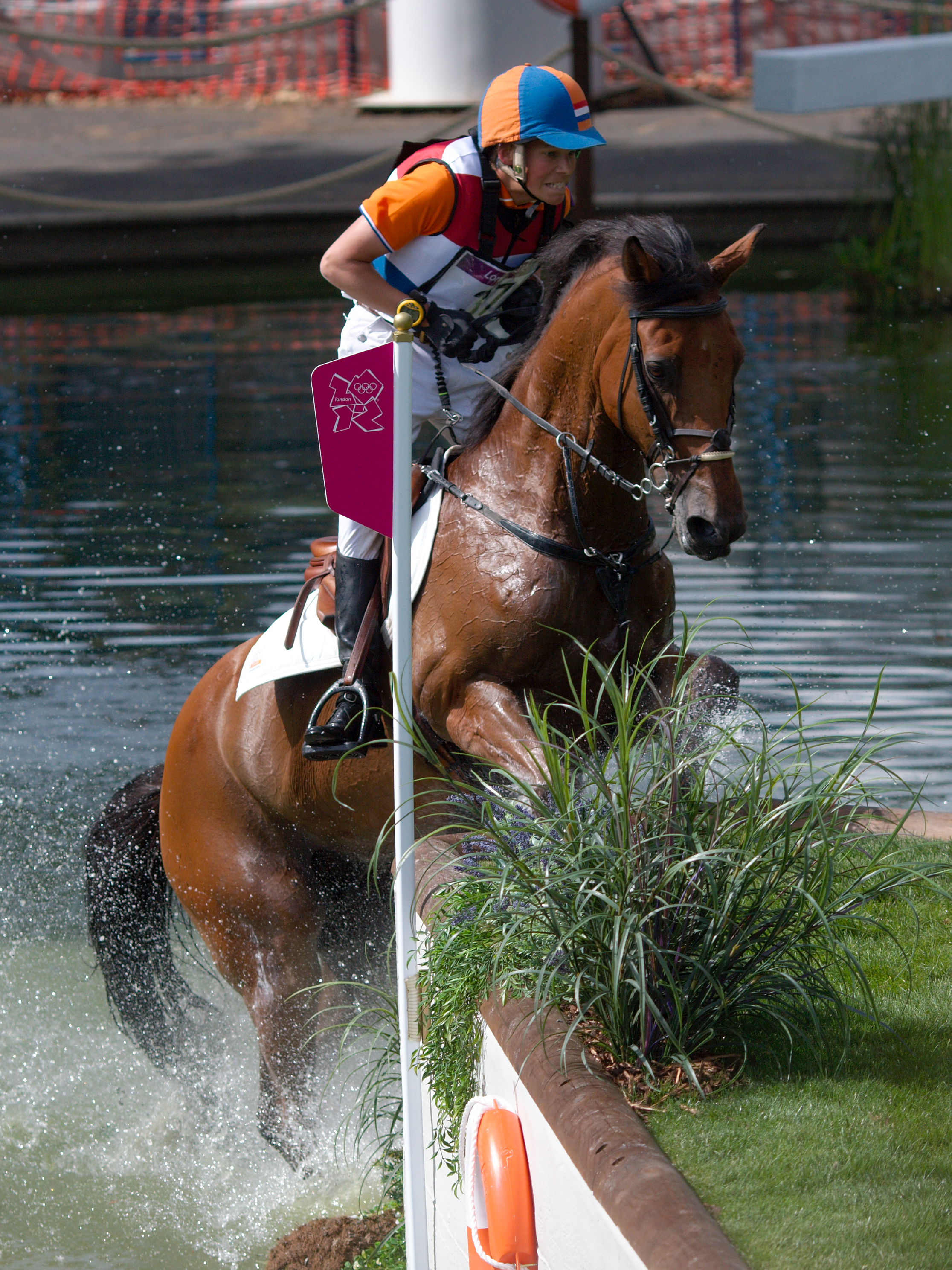 Tim Lips and Oncarlos, competing for NED, at fence 18, during the cross-country phase of the Eventing during the 2012 Olympic Games in Greenwich Park, London.